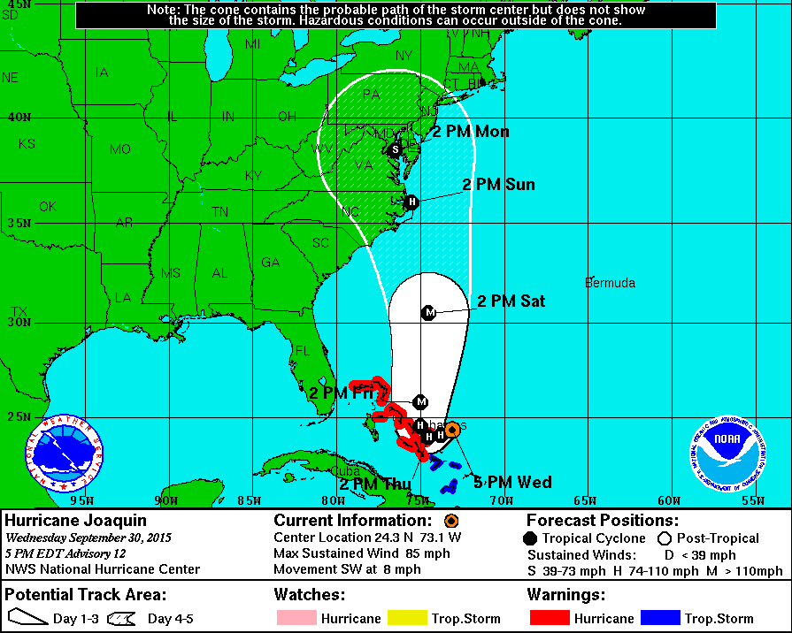 The National Hurricane Center's forecast track for Hurricane Joaquin at 5:00 p.m. on September 30, 2015, depicting the storm making landfall in the United States.